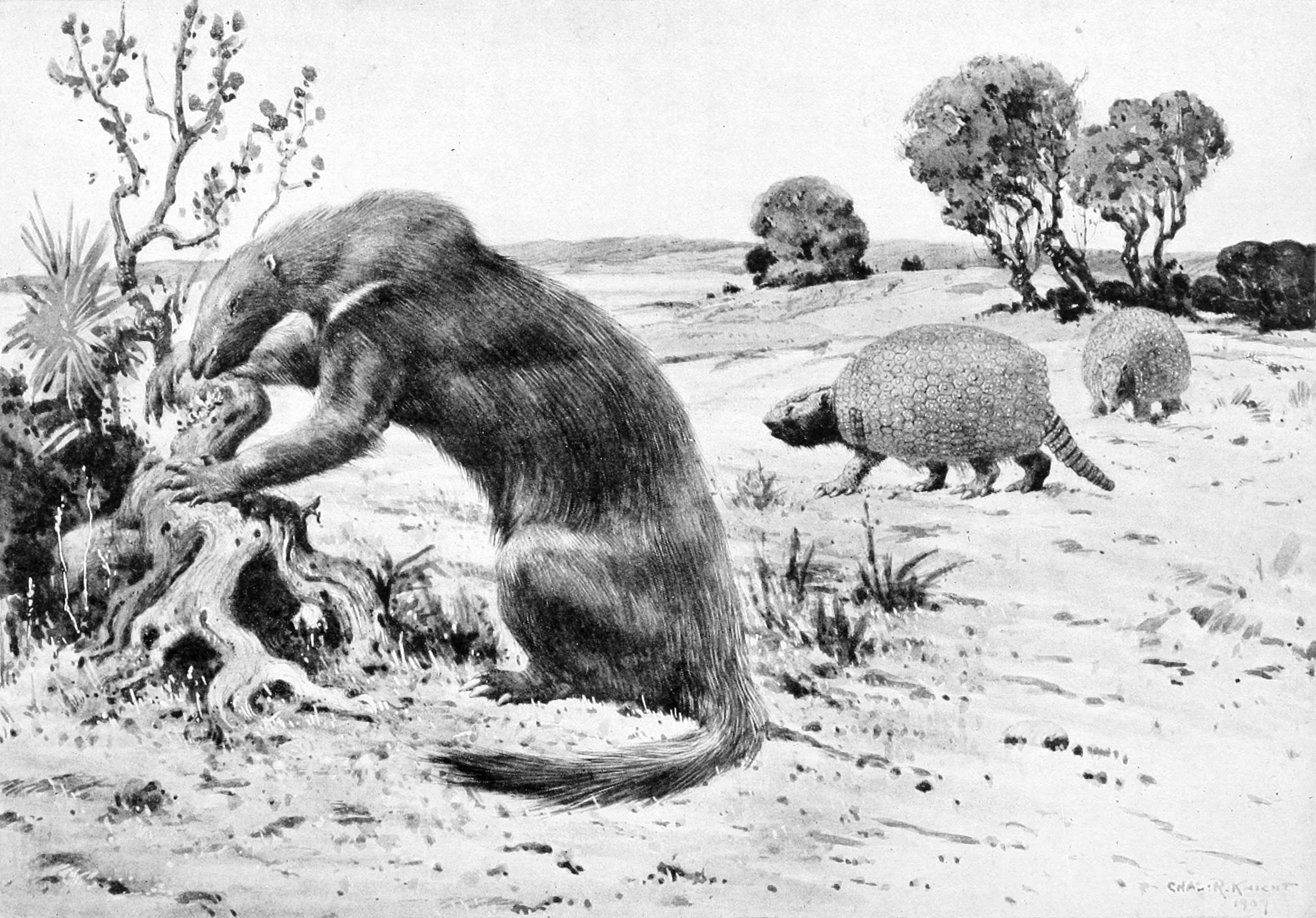 Life restoration of Hapalops longiceps and Propalaeohoplophorus australis from W.B. Scott's A History of Land Mammals in the Western Hemisphere. New York: The Macmillan Company.